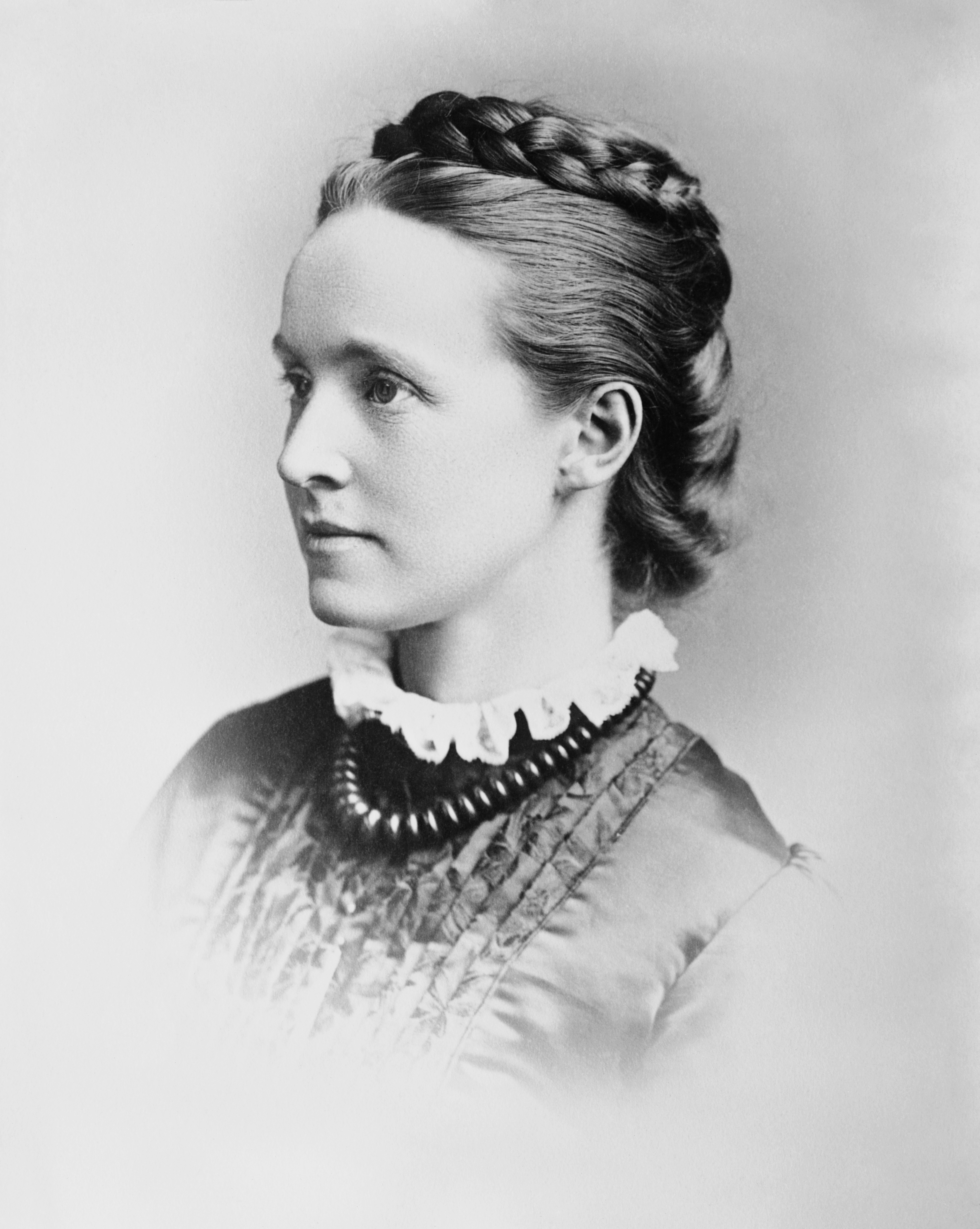 Portrait of Millicent Fawcett (1847–1929)